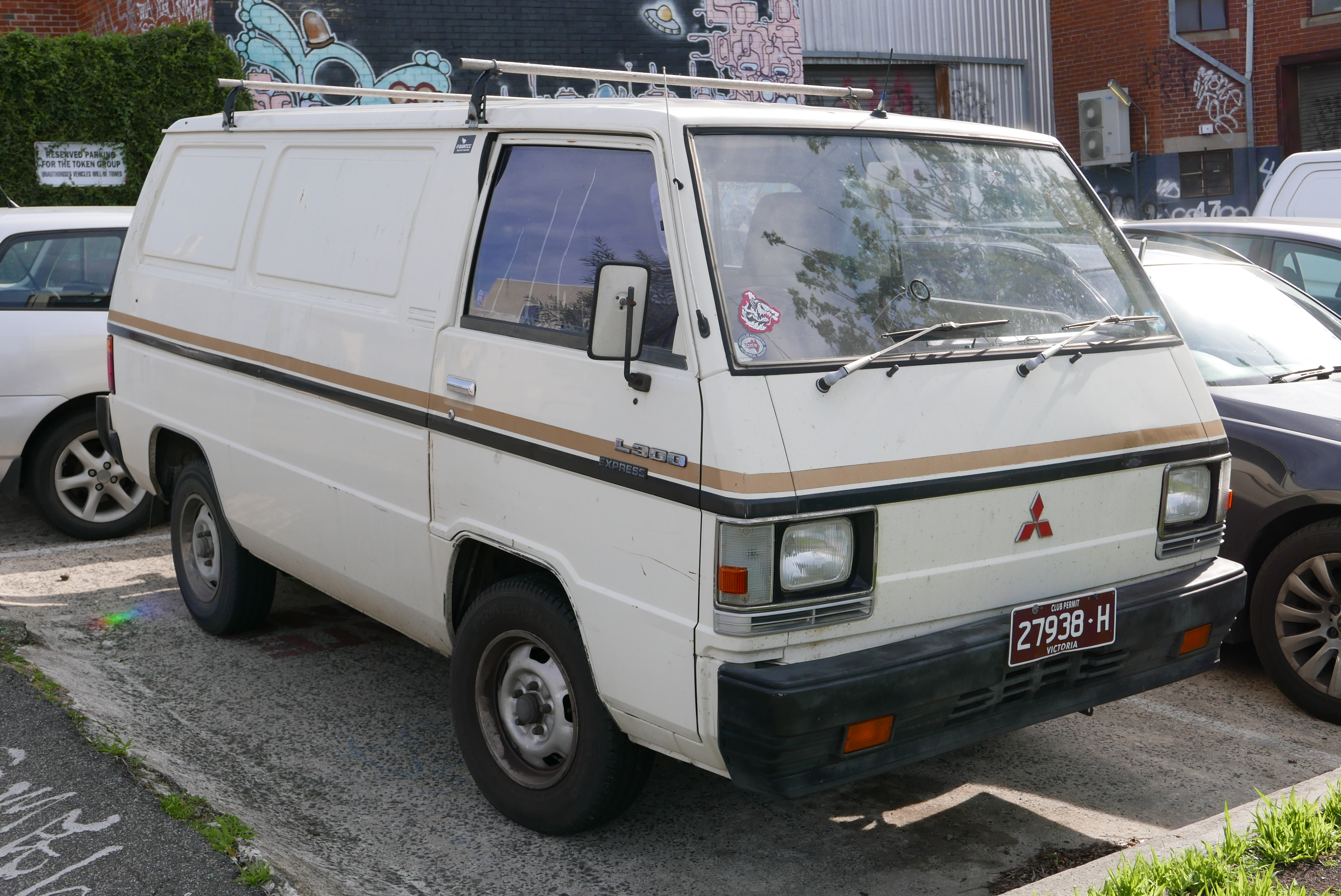 1984–1985 Mitsubishi L300 Express (SD) 2.0 van. Photographed in Clifton Hill, Victoria, Australia.